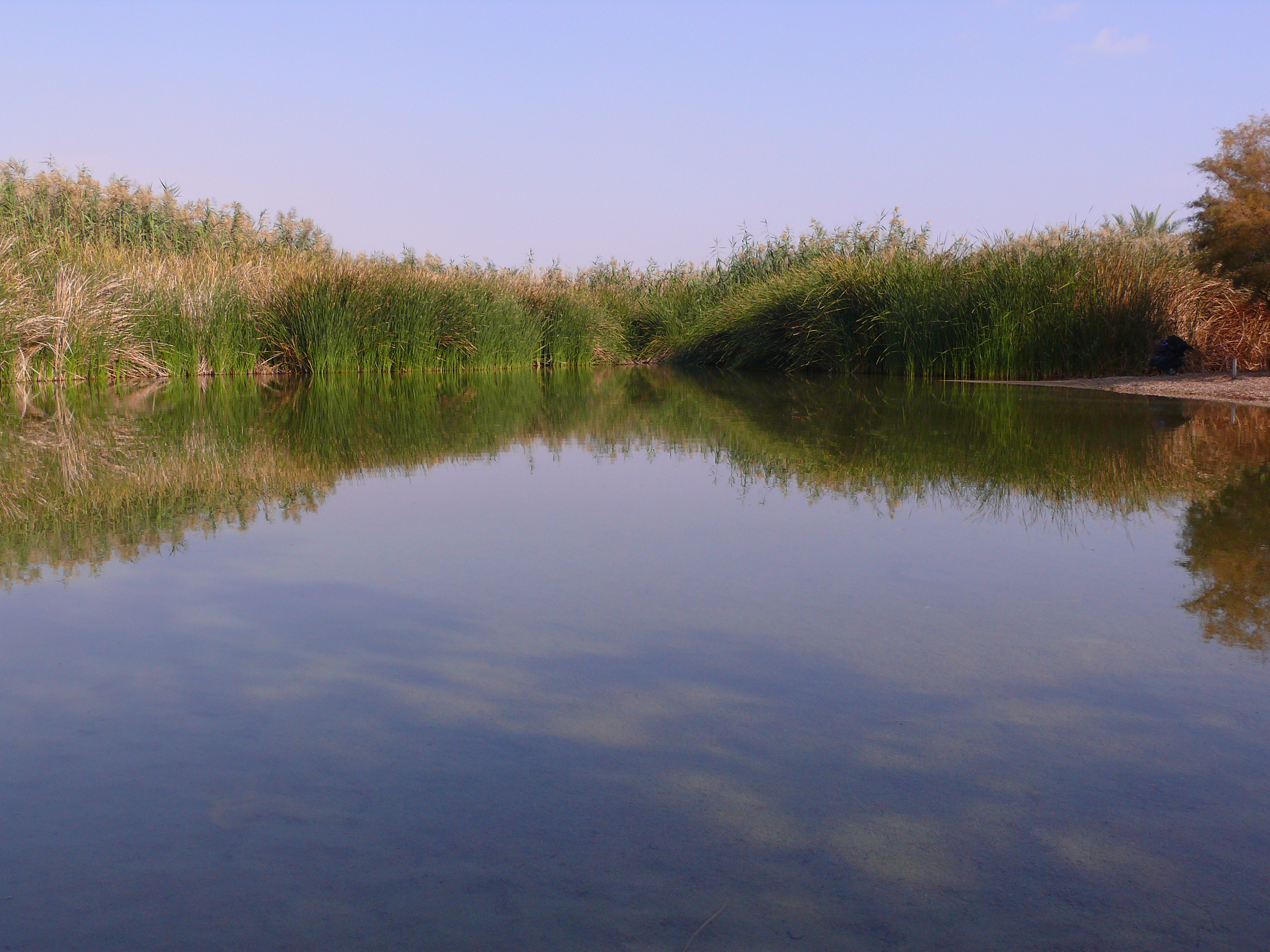 Einot Zukim (Ein Fashkhe) Reserve, Palestine.